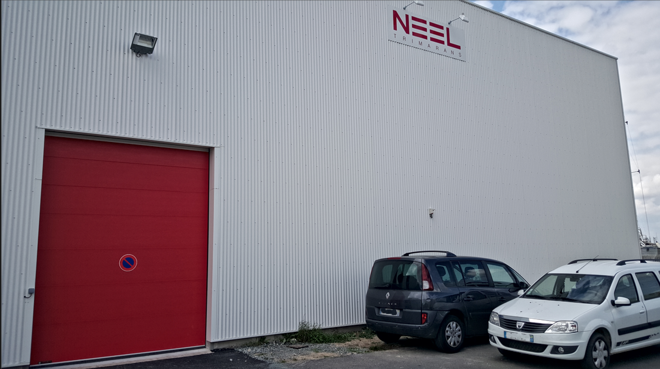 Photograph of the front of the Neel Trimarans Facility at La Rochelle, France, taken 2015-04-27.